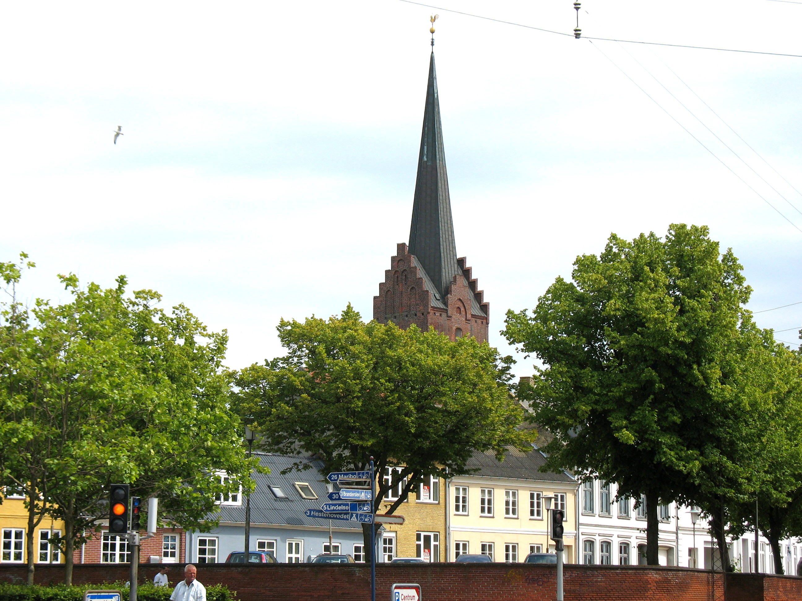 The street "Nørrevold" in the town "Nakskov" located on the island Lolland in east Denmark.